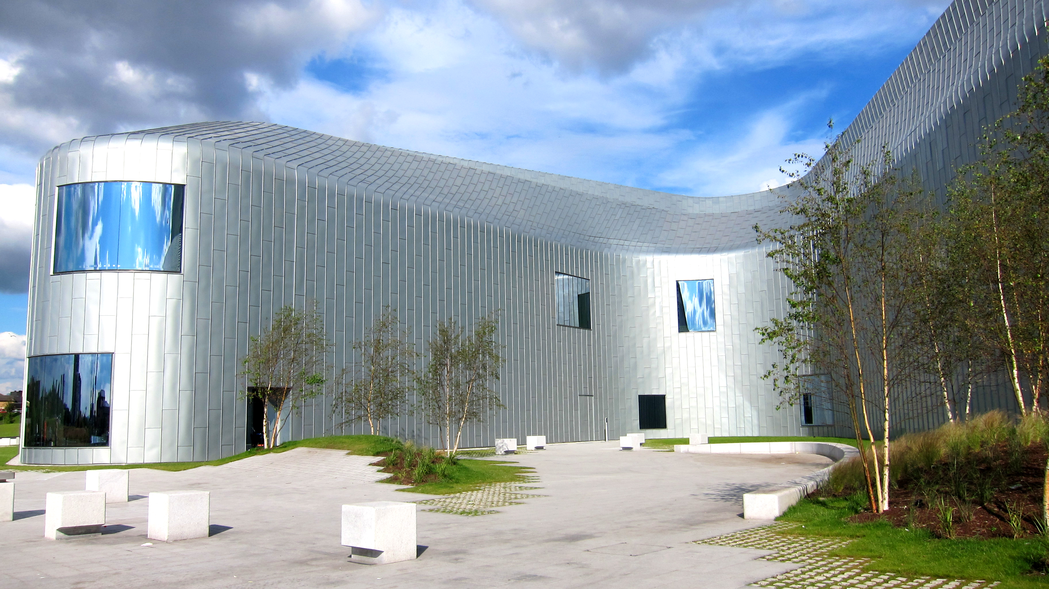 Outside education space